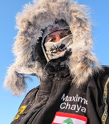 Lebanese Maxime Chaya behind his mask during his North Pole expedition.